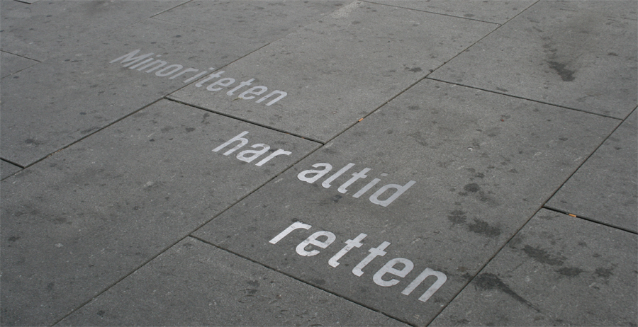 A small part of the artwork «Ibsen Sitat» or Ibsen Quotes, where 69 quotations from Henrik Ibsens's work are written on the pavements in downtown Oslo. Artists are the group FA+. This quotations is «The Minority is Always Right», from «An Enemy of the People».